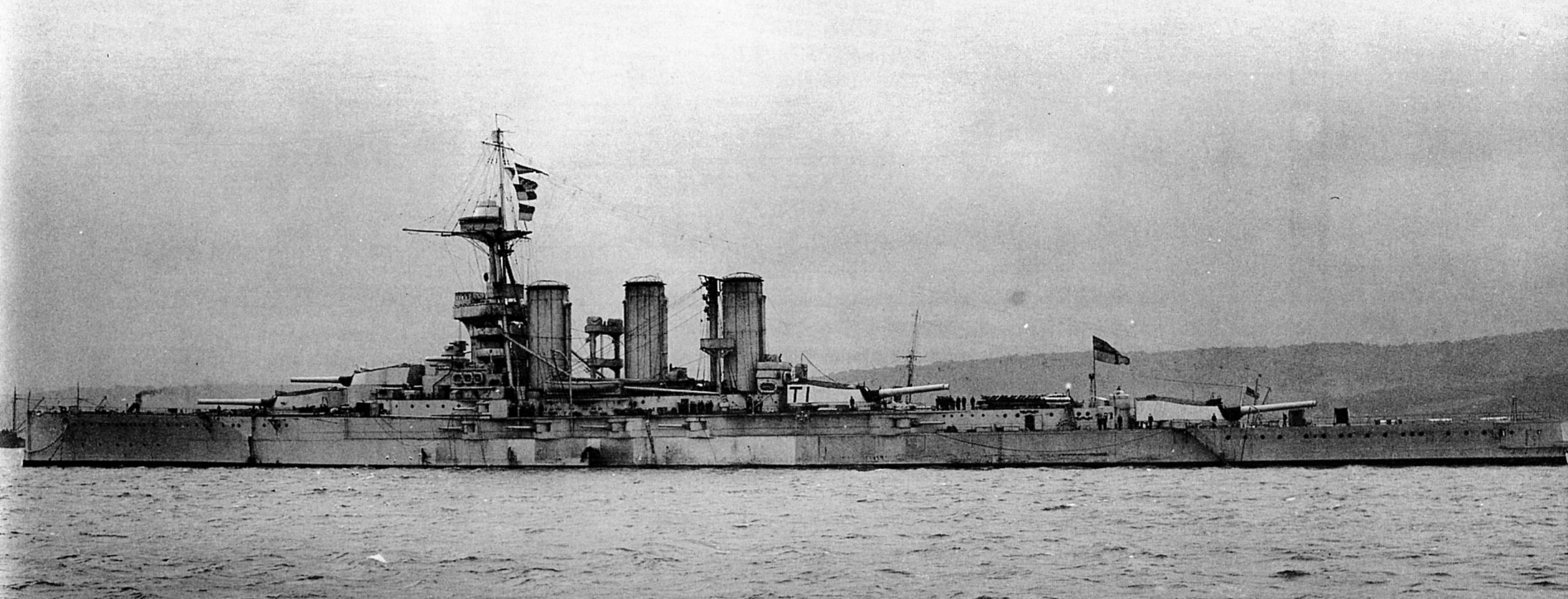 HMS Tiger at anchor, 1916–17; Imperial War Museum image SP 1674